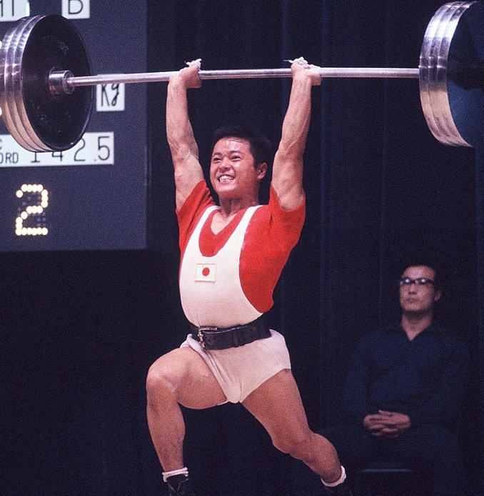 Hiroshi Fukuda, 1964 Olympics